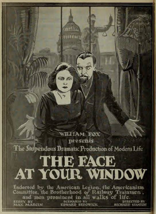 Advertisement for the American drama film The Face at Your Window (1920), directed by by Richard Stanton